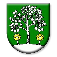 Brezova´s erb